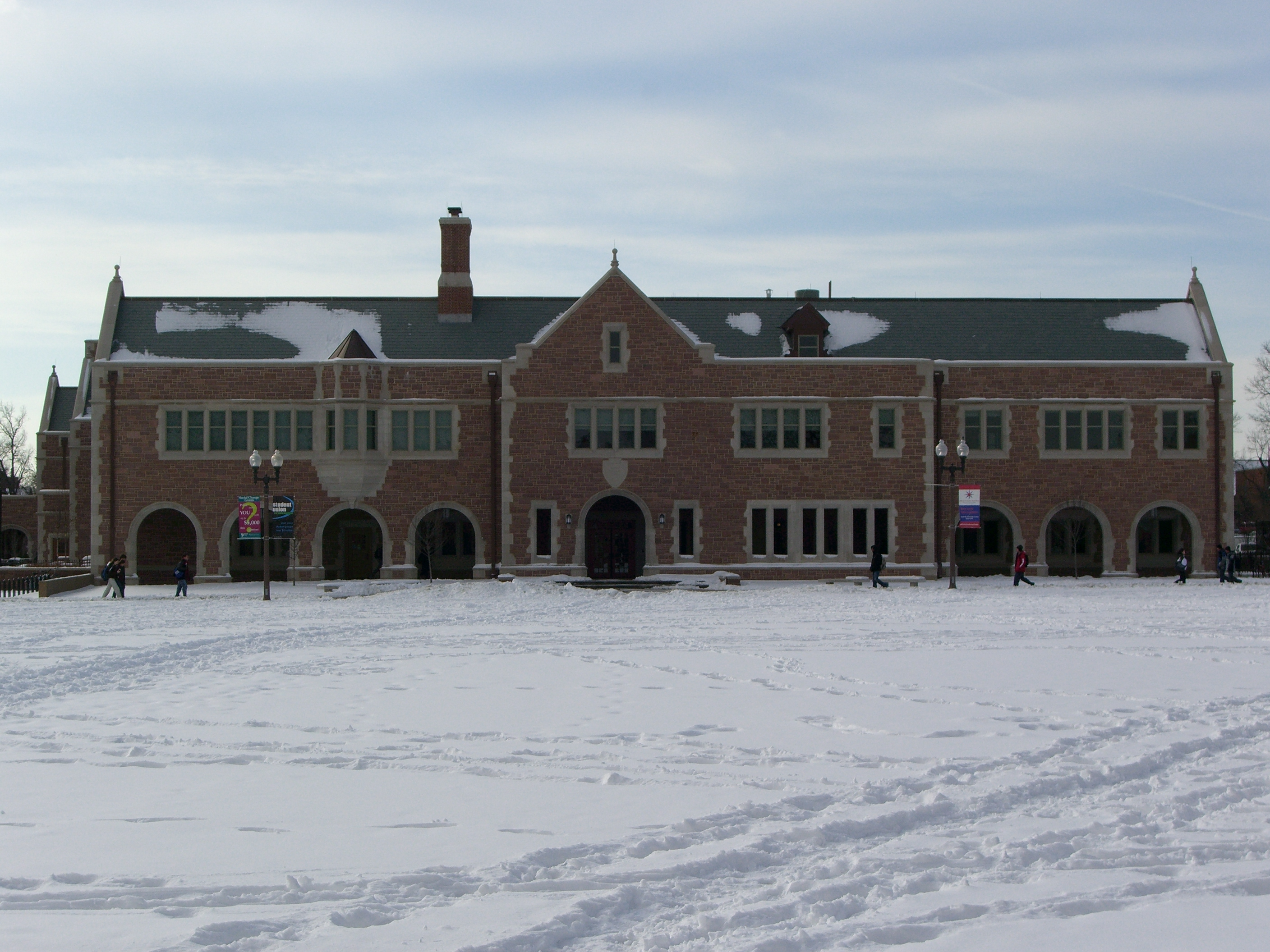 The Danforth University Center at Washington University in St. Louis. Construction completed in 2008.